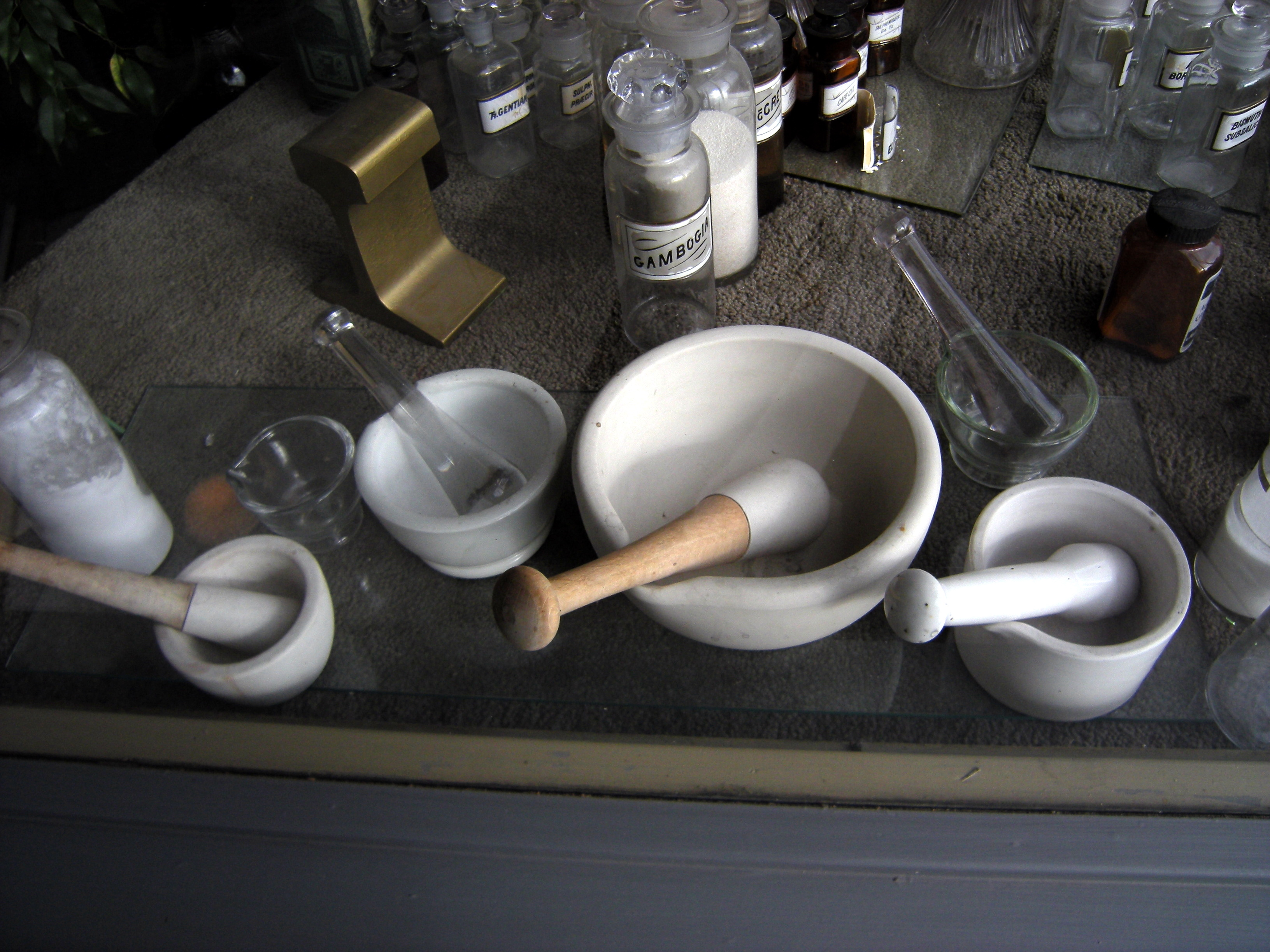 Ceramic mortars and pestles, Herb Knudson's Surgical Appliance & Hospital Equipment (usually just Herb Knudson's Surgical) is located at 2909 Hewitt Avenue, Everett, Washington, USA, in one of the buildings listed on the National Register of Historic Places as the "Swalwell Block and Adjoining Commercial Buildings". The displays in the windows at the front of the store function as something of a mini-museum of pharmacy and medical equipment.